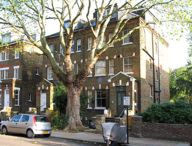 60 Parkhill Road, NW3 Mondrian lived here in the late 1930s; see 1039626.